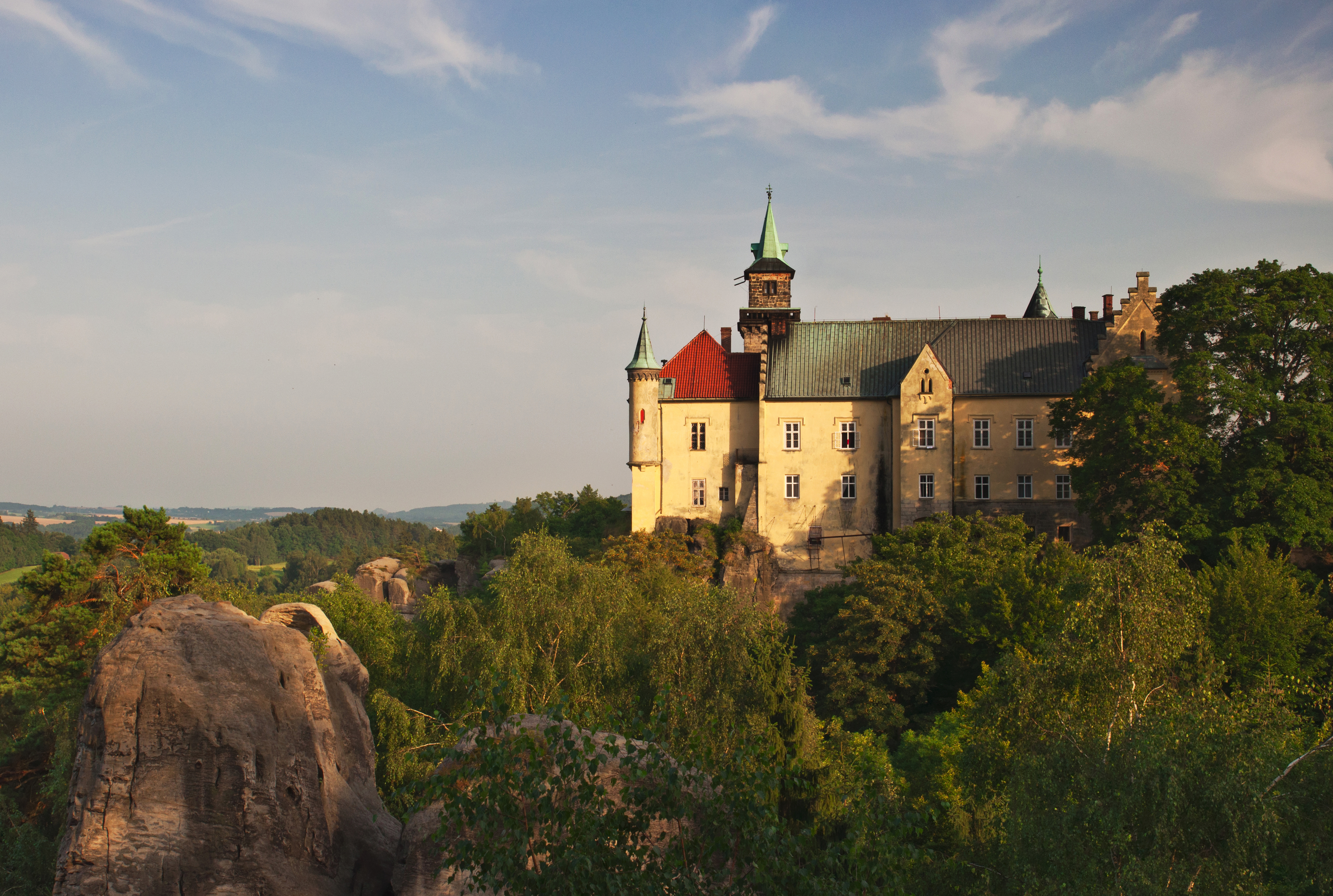 Hrubá Skála Castle, Czech Republic.